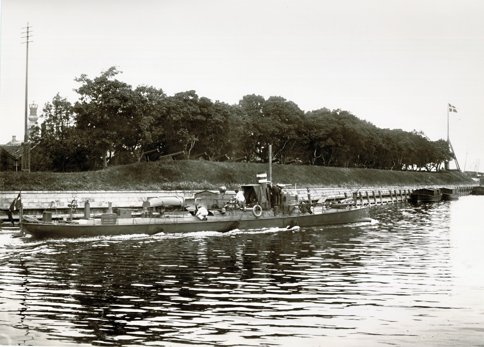 Danish torpedo boat Sværdfisken at Holmen, Copenhagen. In the background, Hovedvagten, the Sixtus Battery and Rigets Flag.